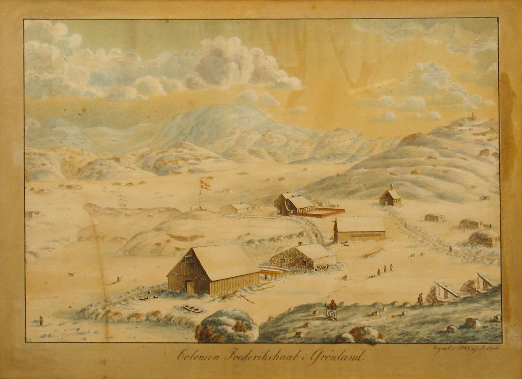 Frederikshaab is now known as Paamiut. Arøe left Greenland in 1839 and the later paintings were either made from older sketches or based on drawings made by people visiting or posting from Greenland.